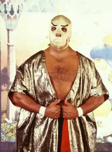 Ari Romero as his Iraqui gimmick Gran Sheik reappearing in Arena Mexico in CMLL circa 1992